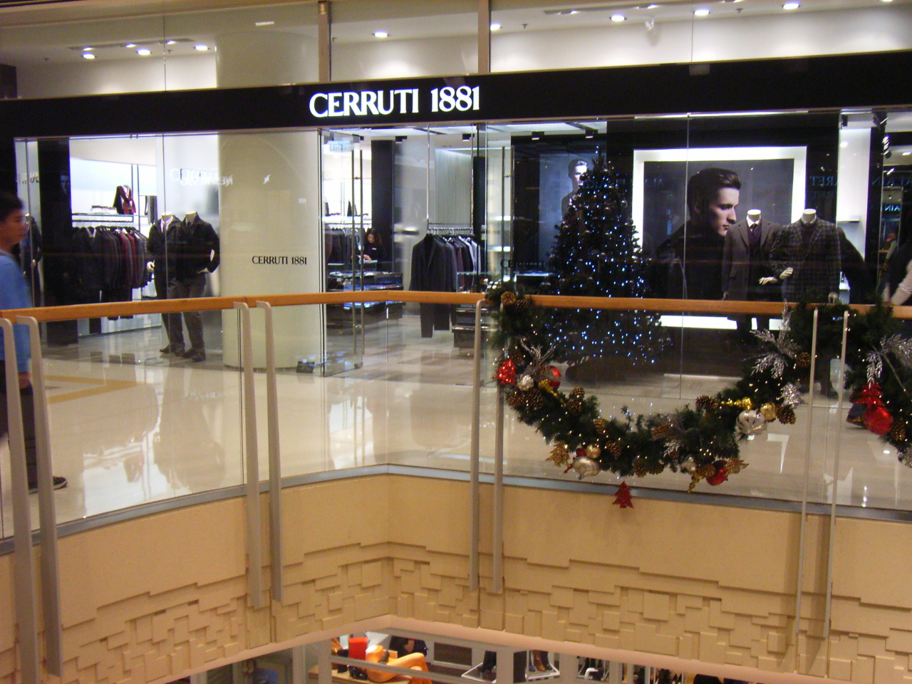 西九龍Union Square圓方商場 Cerruti 1881